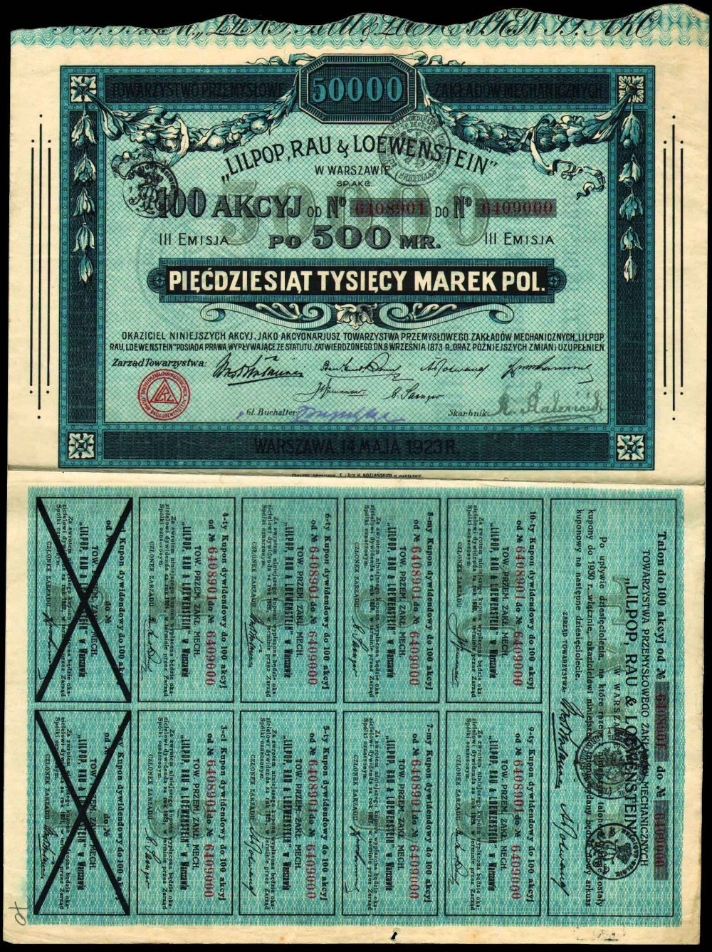 1923 stock certificate of Lilpop, Rau & Loewenstein company. Specifically 100 bonds for 500 Polish mark each. Top part of the document is the stock certificate itself, the bottom part consists of dividend coupons to be cancelled at payment of yearly dividend.